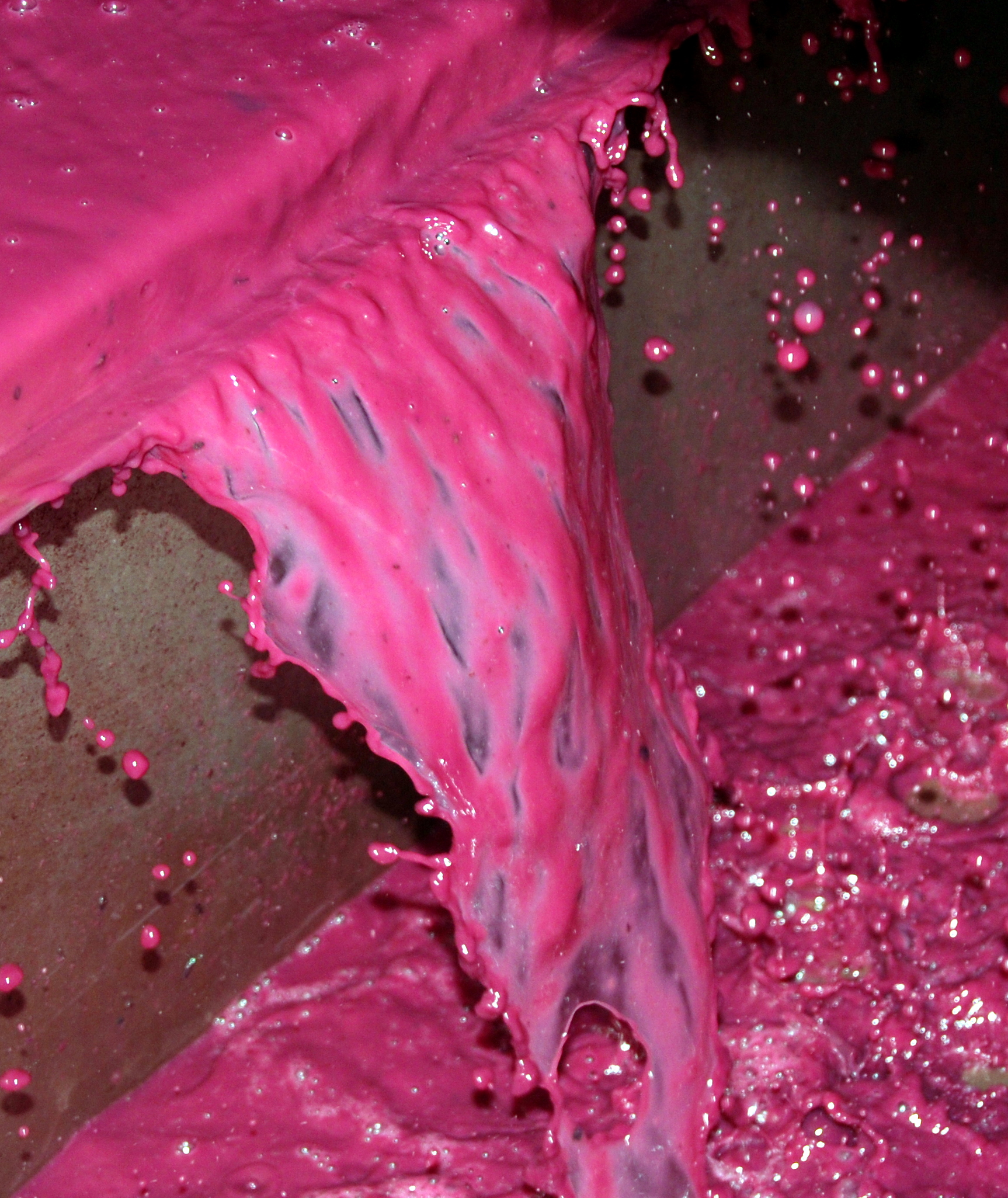 Pinot noir juice after being extracted from the wine press